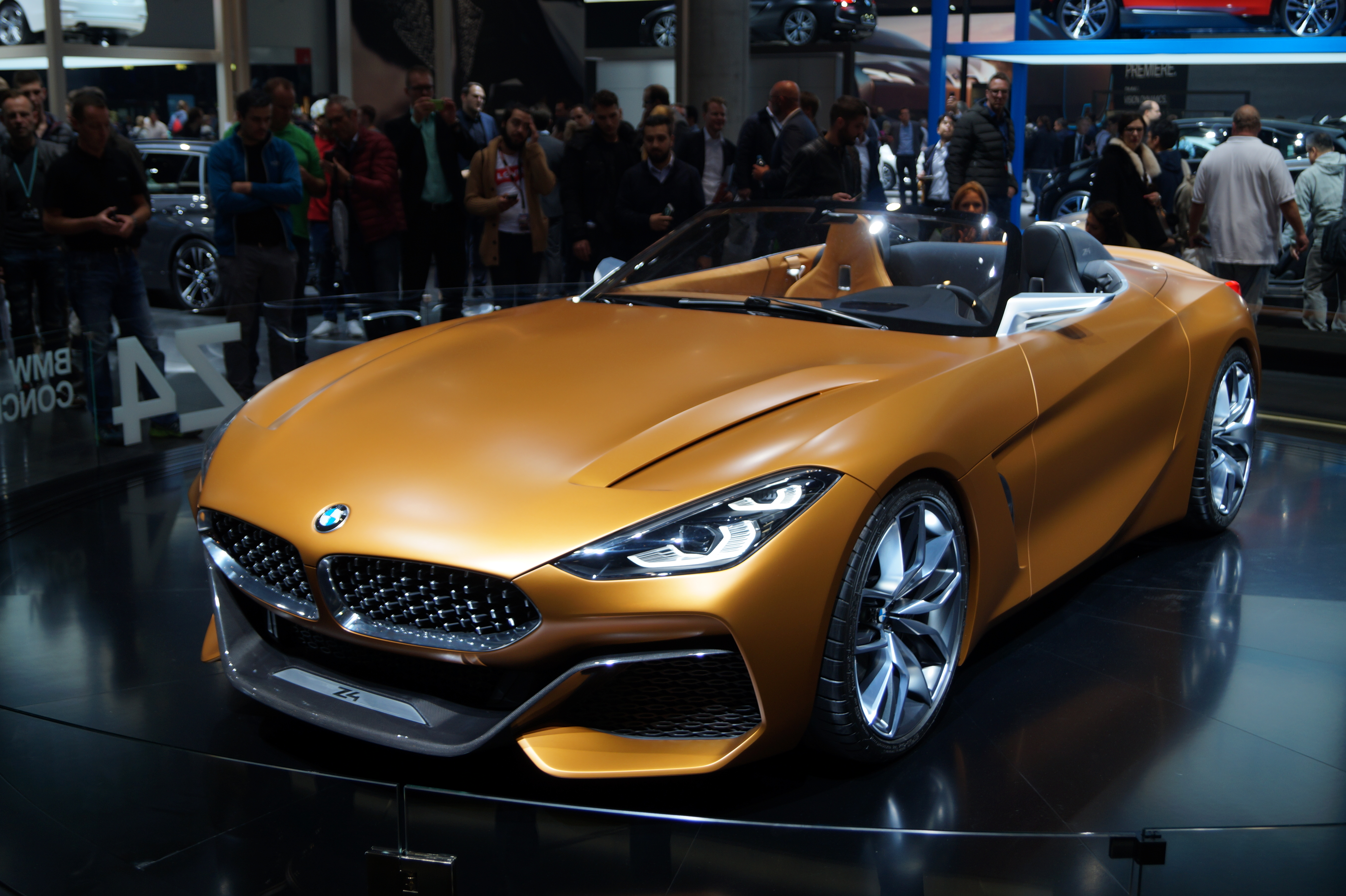 BMW at IAA 2017